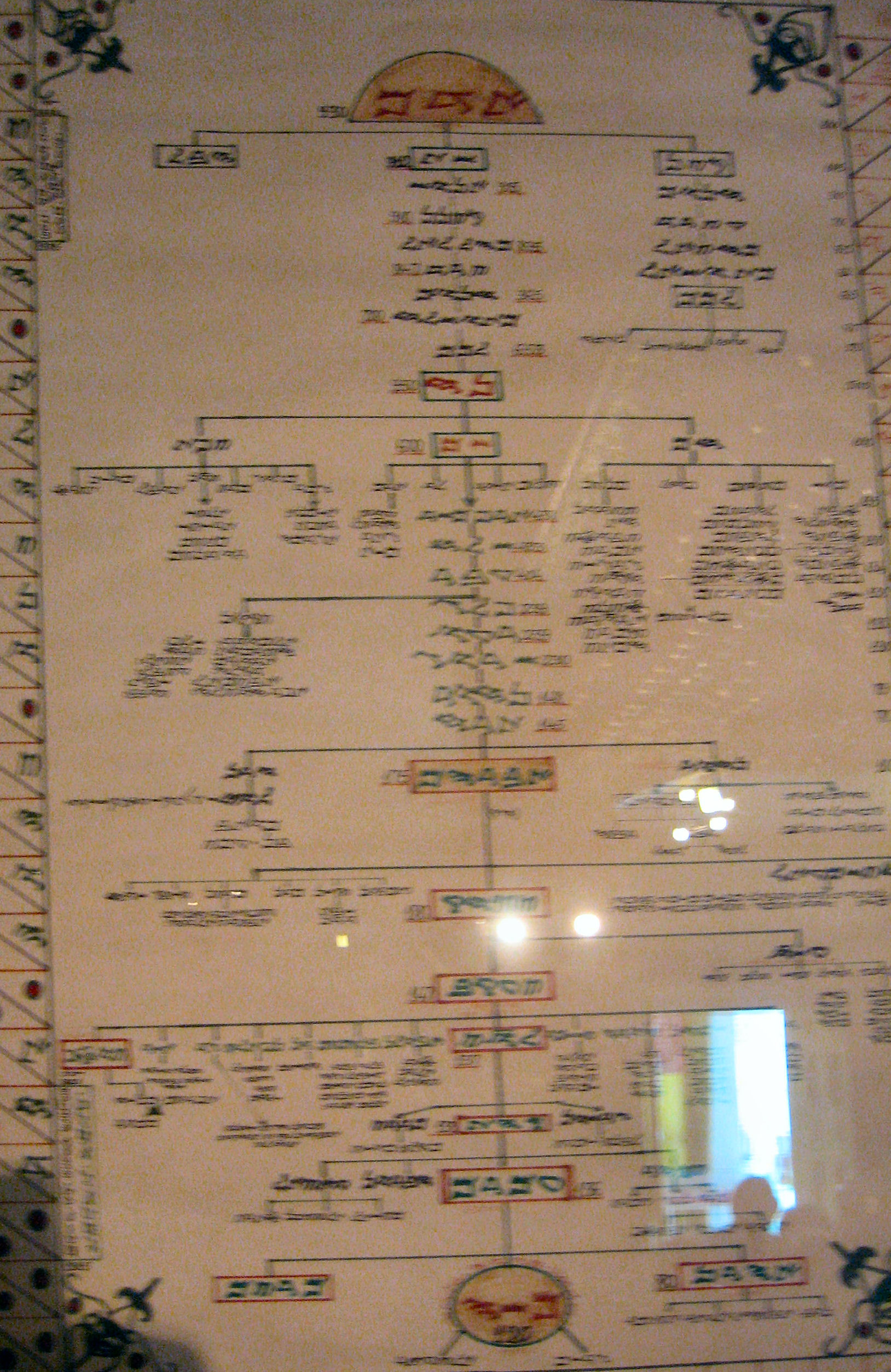 26_generation of samarities